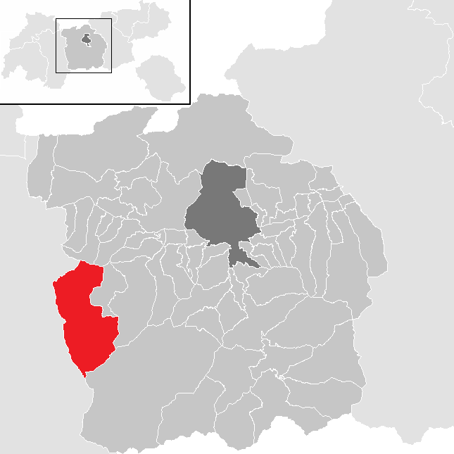 District Innsbruck Land